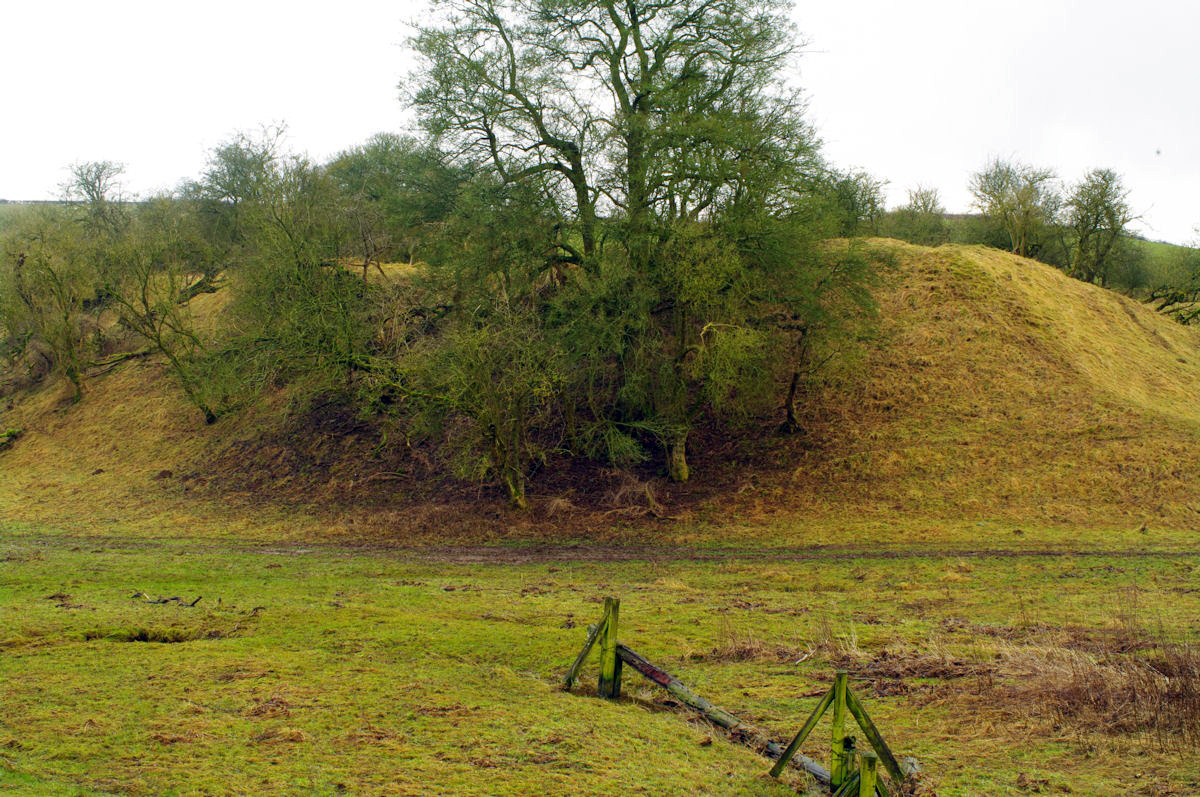 Sauvey Castle; colours balanced